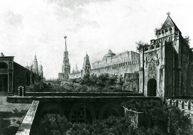 View of Nikolskaya tower and gates of Moscow Kremlin (right) and the moat in place of present-day graveyard near Kremlin Wall and (part of) Red Square. The moat was filled and the tower was built up in Gothic style in 1800s